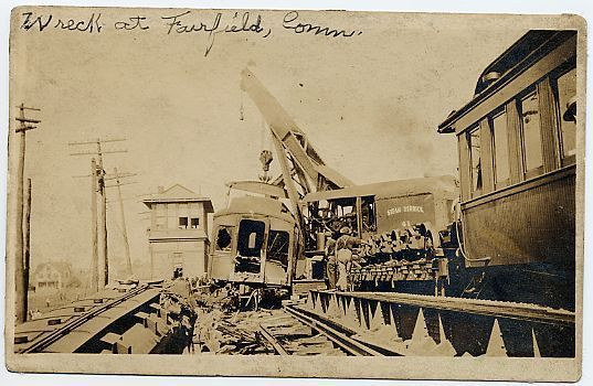 Postcard showing train wreck in Fairfield, Connecticut c1915